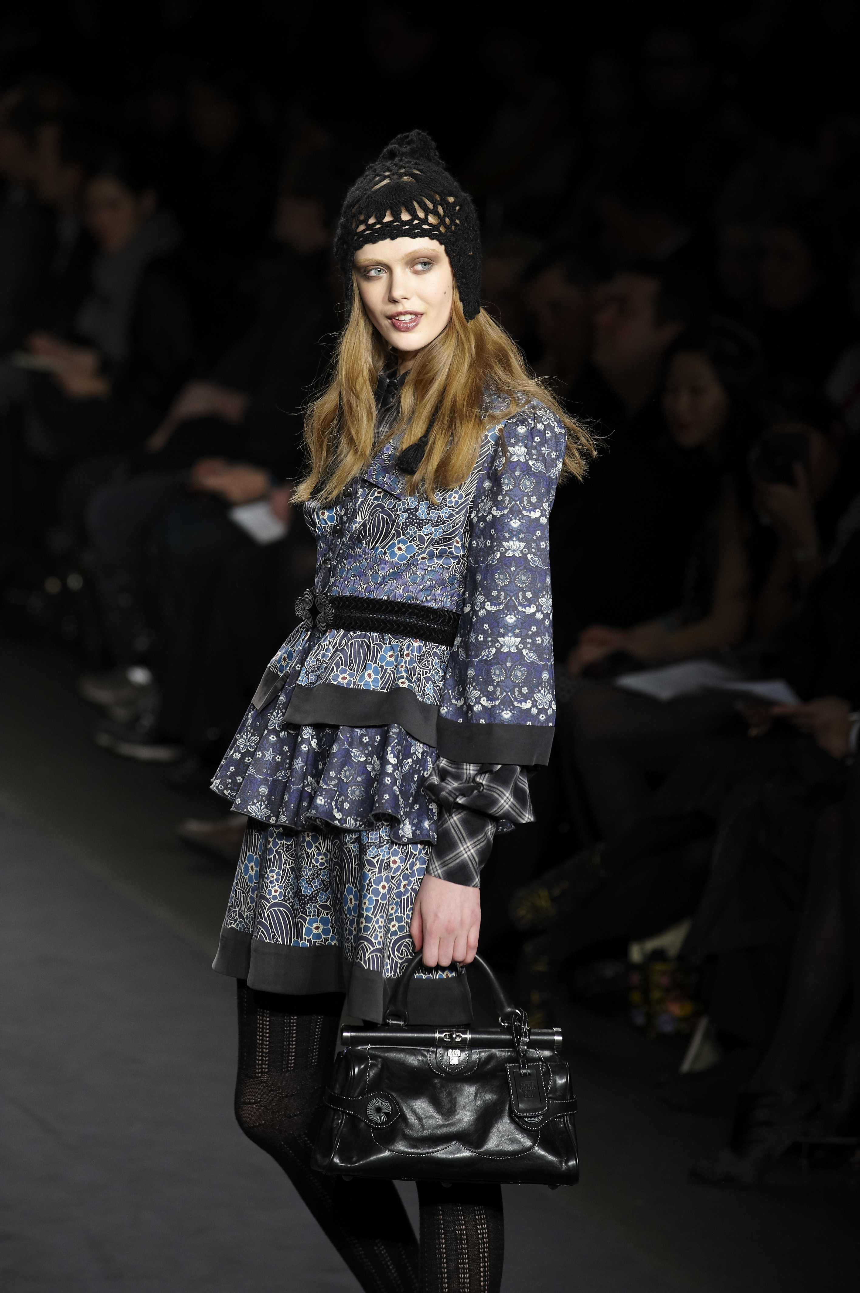 A model walks the runway at the Anna Sui Fall/Winter 2010 show at New York Fashion Week, February 2010.